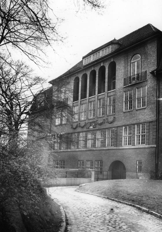 Hamburg Museum für Hamburgische Geschichte. Am Holstenmarkt Information added by Wikimedia users.This is a photograph of an architectural monument.